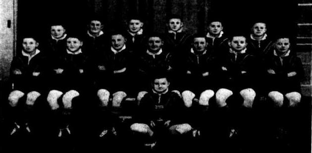 Photograph of the St. John's Orphanage Football Team in 1941, appearing in the news article "Sport at St. John's Orphanage, Goulburn". As this is from Trove, this link is relevant for postage: [1]